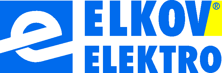 Firemní logo společnosti ELKOV elektro